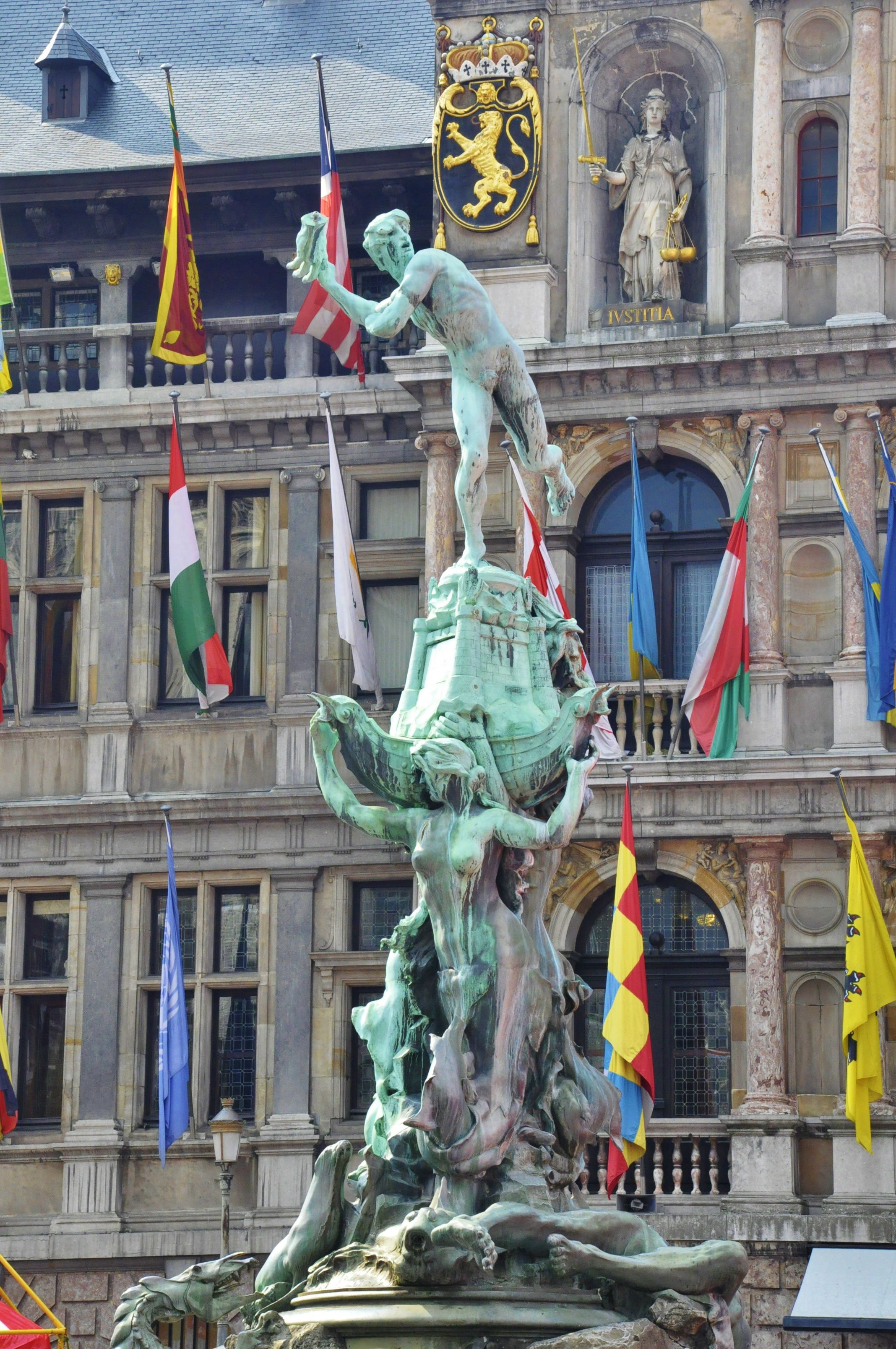 Statue of Silvius Brabo